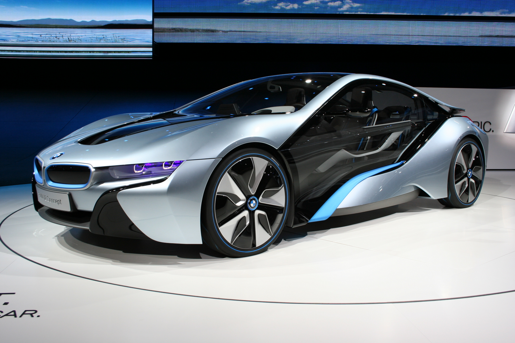 BMW i8 Concept at IAA 2011. View: front left.